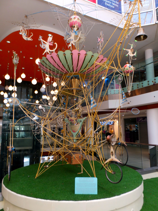 Cat's Cradle Pussiewillow III Clock by Rowland Emett located in Eastgate Basildon